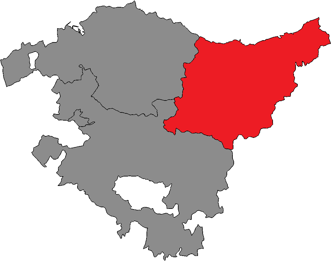 Basque Parliament district of Gipuzkoa.